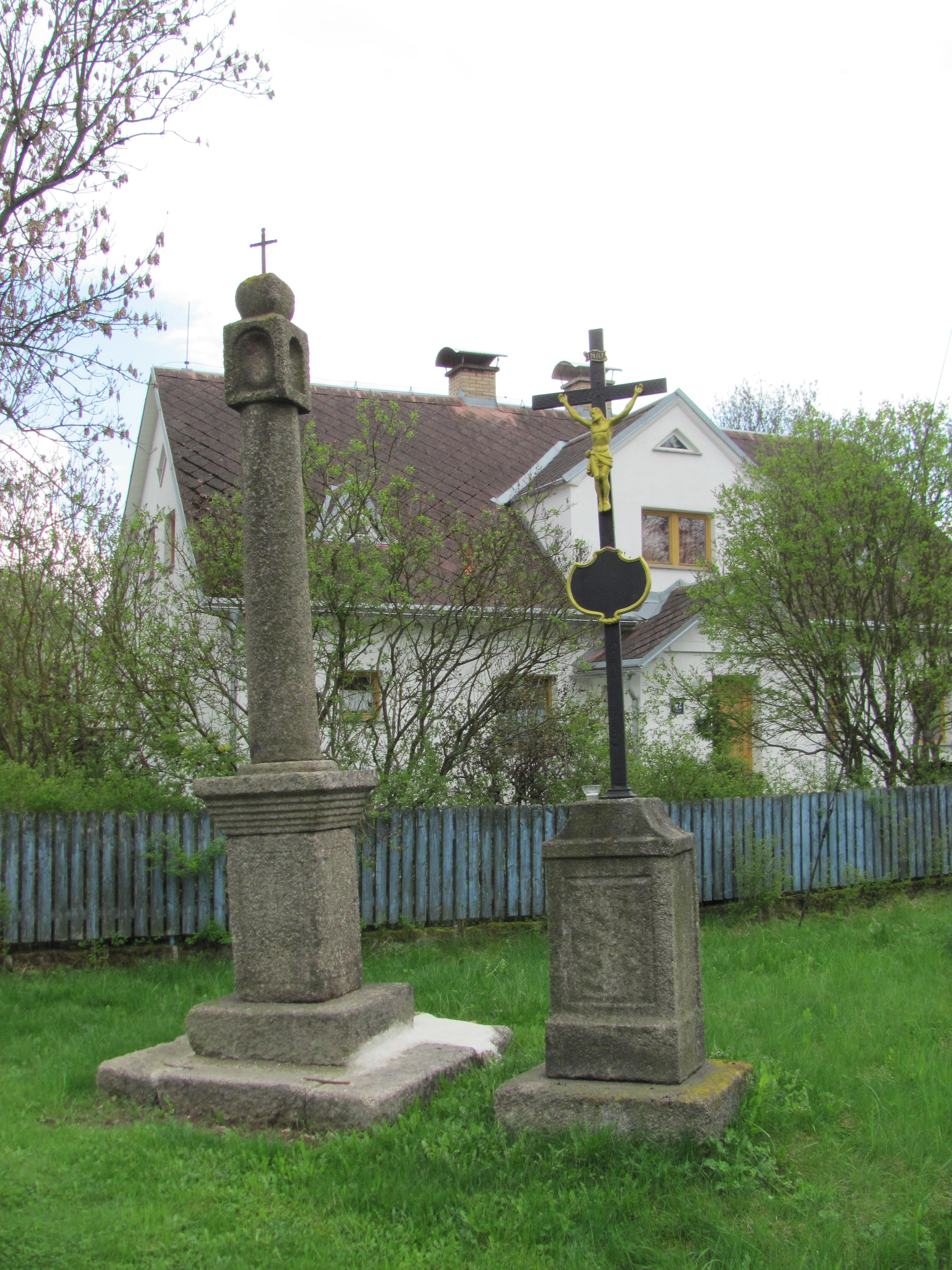 Crosses at St. Bartholomew church in Přílezy